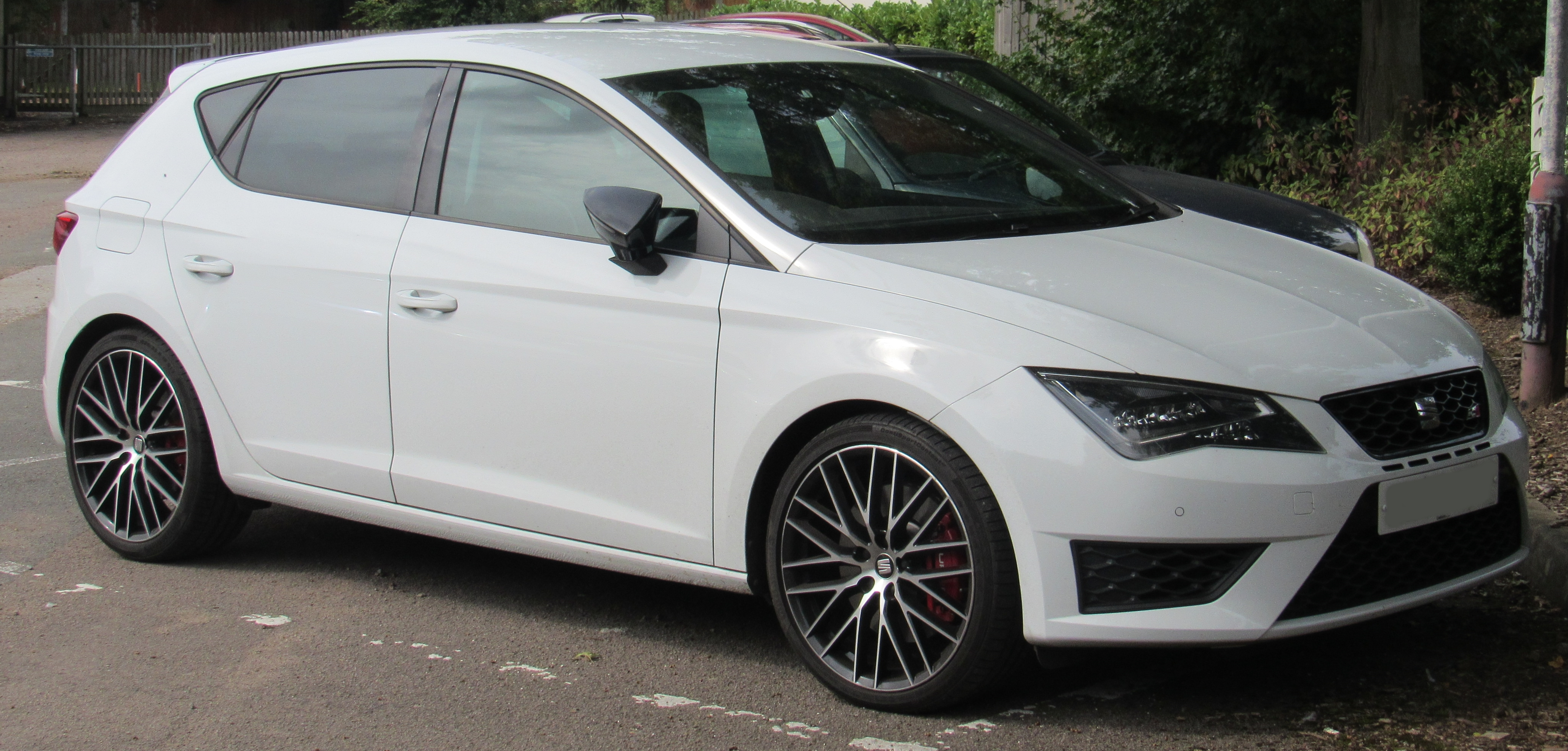 2016 SEAT Leon Cupra Black TSi S-A 2.0 Front Taken in Leamington Spa